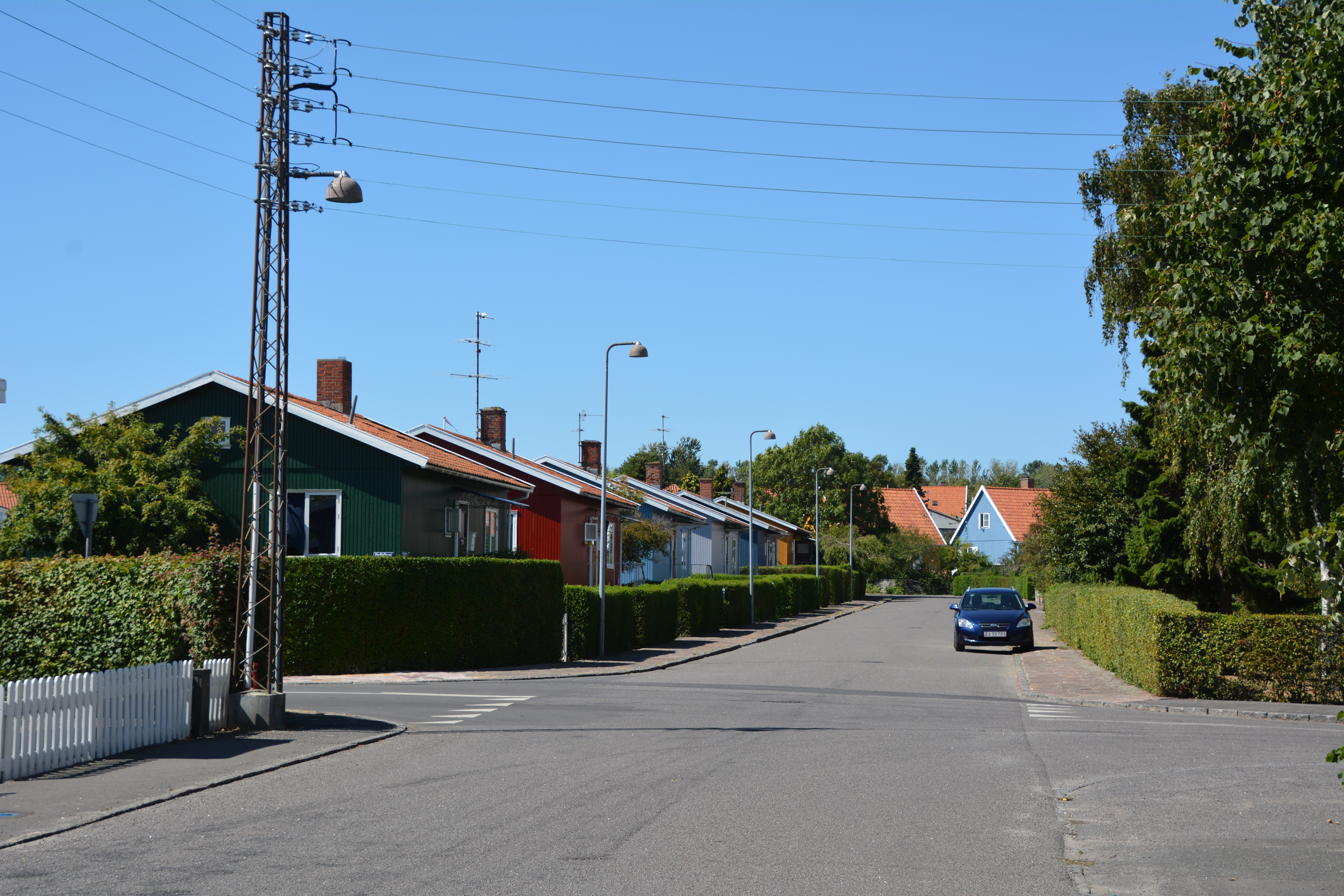 Svenskehusena i Nexö, Sverigesvej